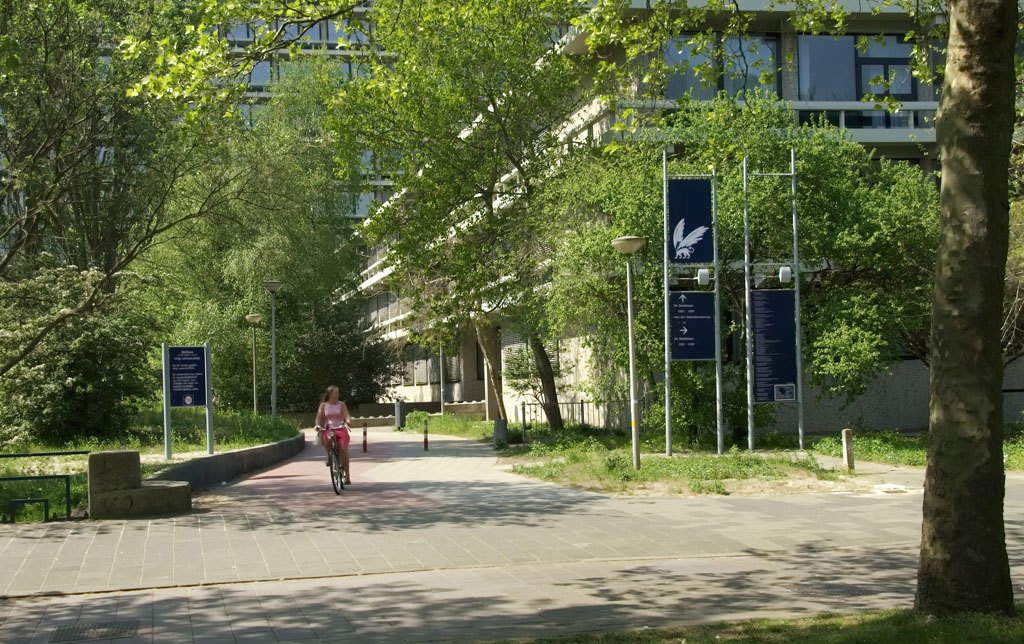 Eastern entrance to the campus of de Vrije Universiteit (Amsterdam).